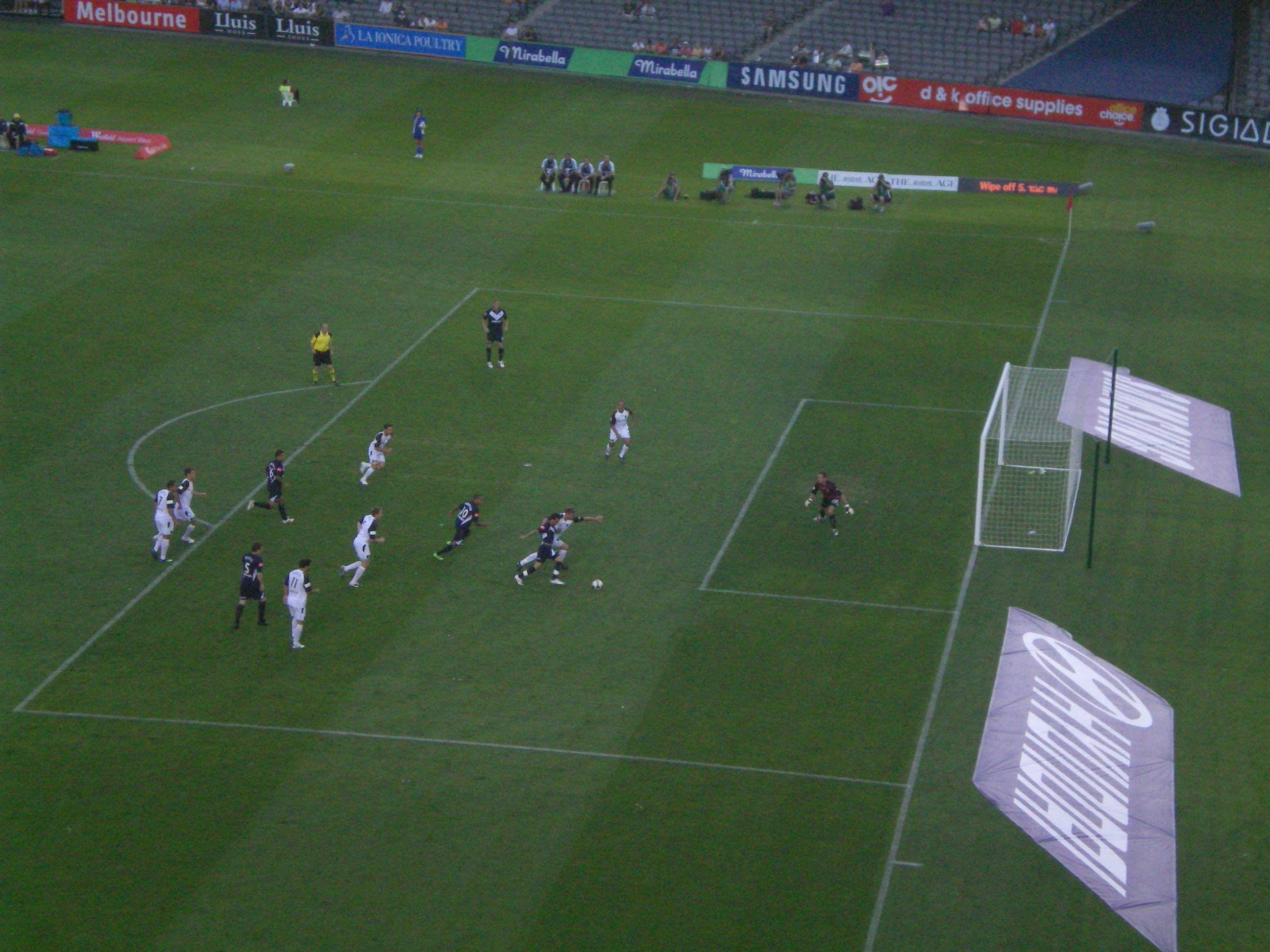 Melbourne Victory shooting for goal. 21st round game, Melbourne Victory vs. Wellington Phoenix, 2008-2009 A-league season.